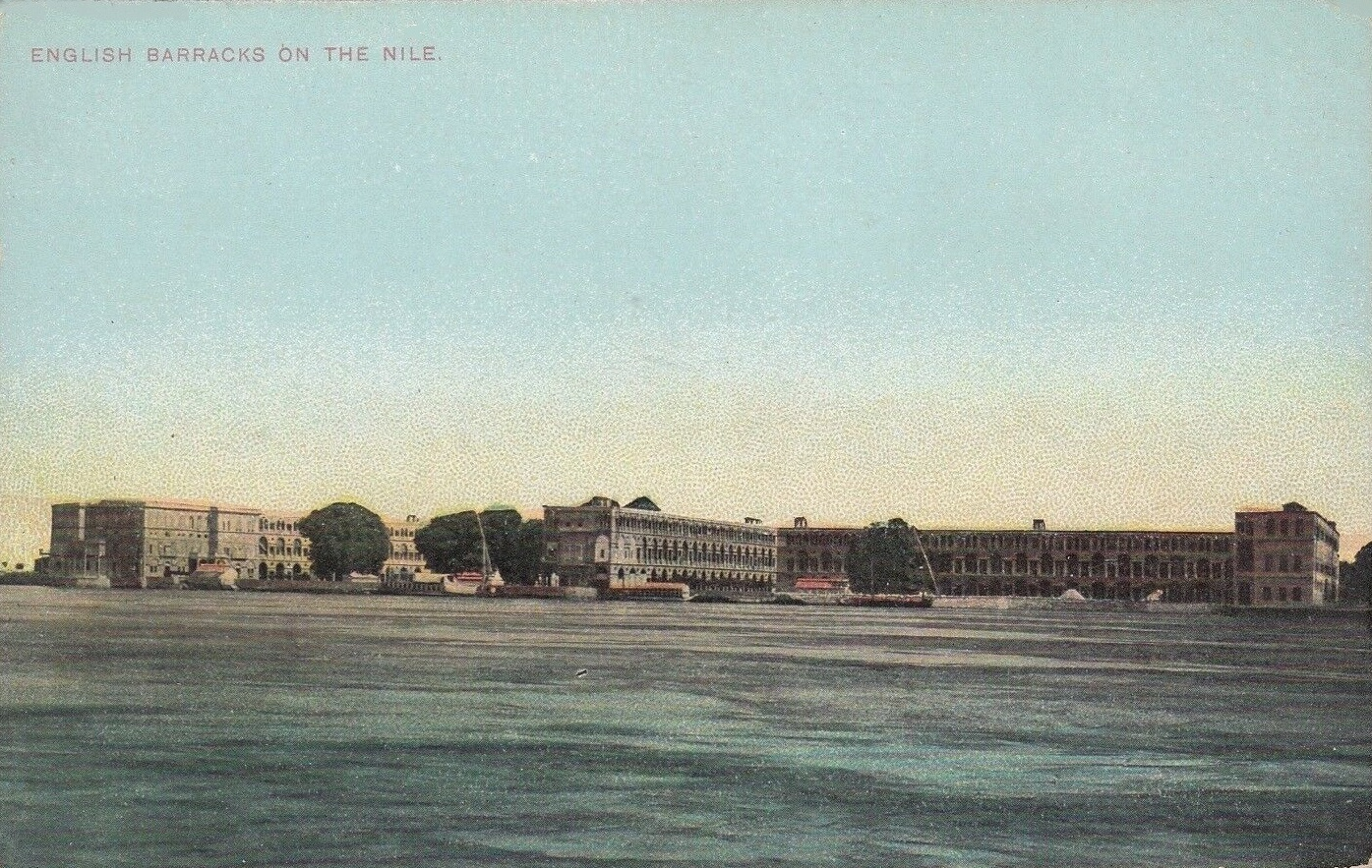 Postcard showing British barracks on the Nile c. 1910, built during the British occupation of Egypt.